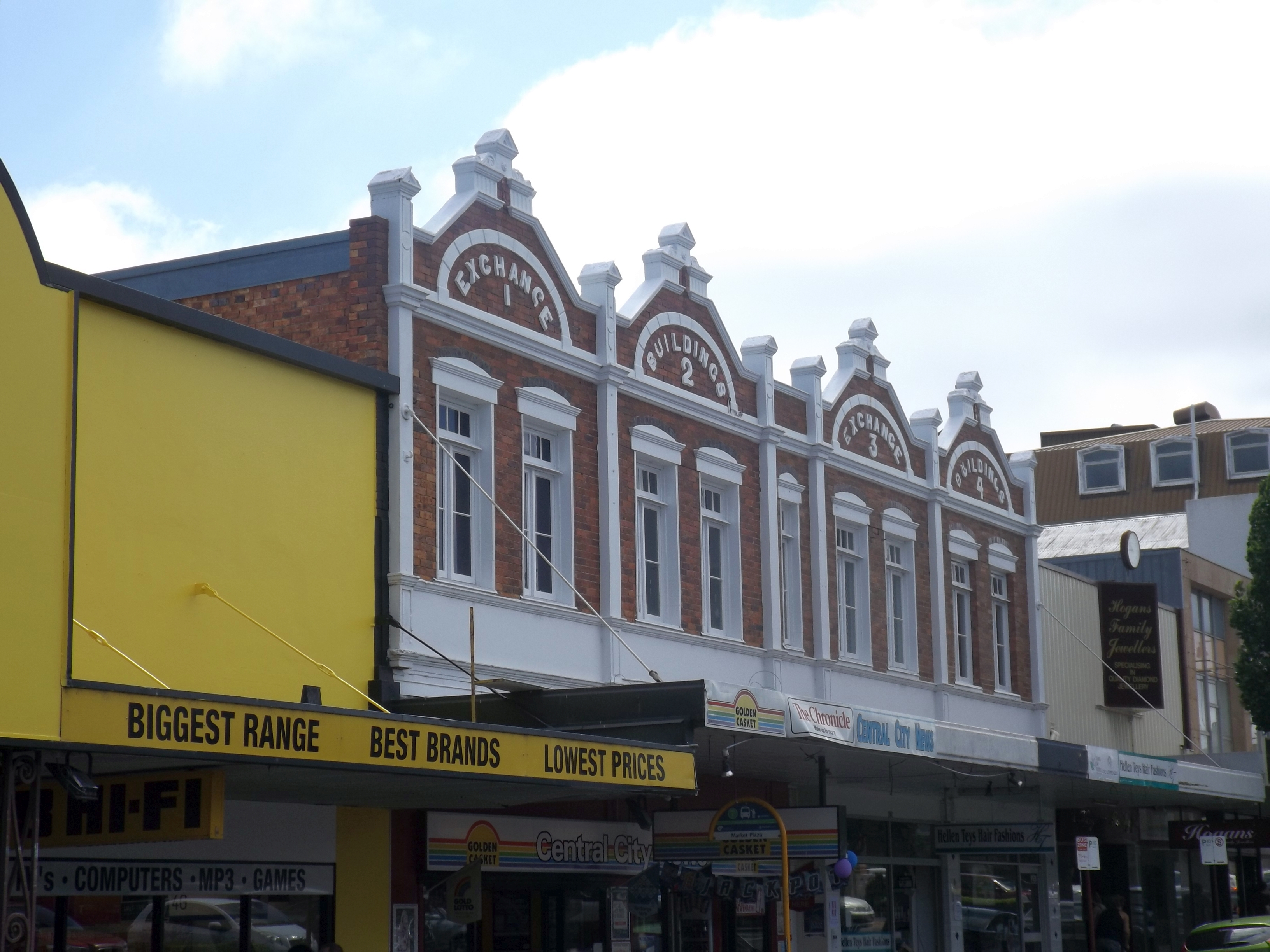 Photo of Exchange Building facade in Toowoomba, Queensland, Australia.